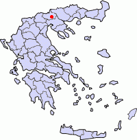 locator map, based on Image:Prefectures Greece grey.png